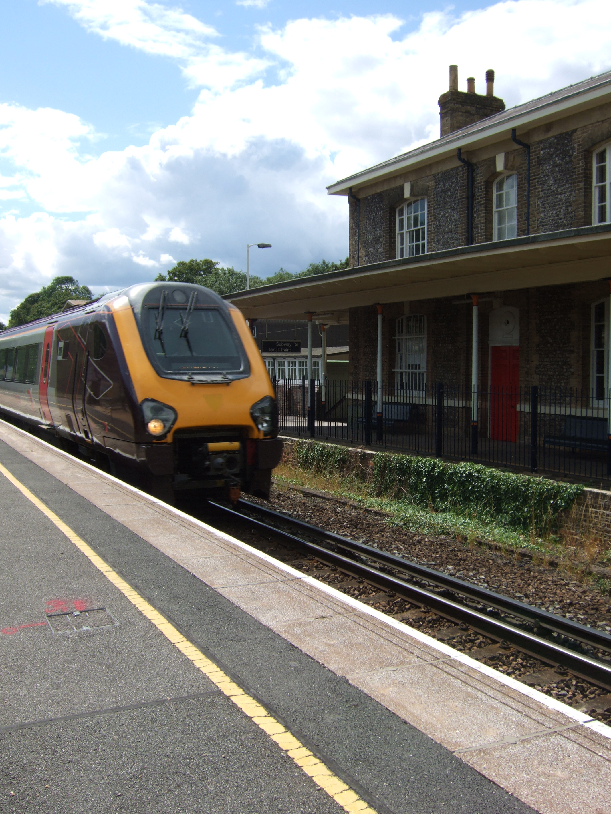 CrossCountry train travelling northbound through europe train ticket